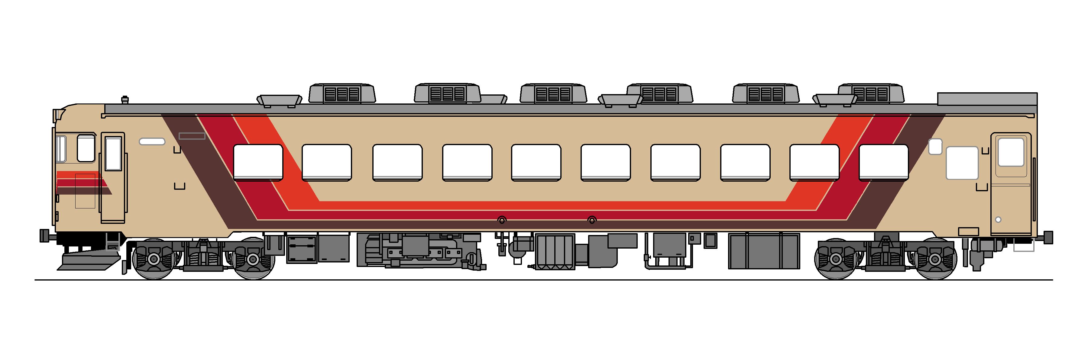 The side view of the DMU type 59 of JNR, Europian style Car "Elegance Acky".